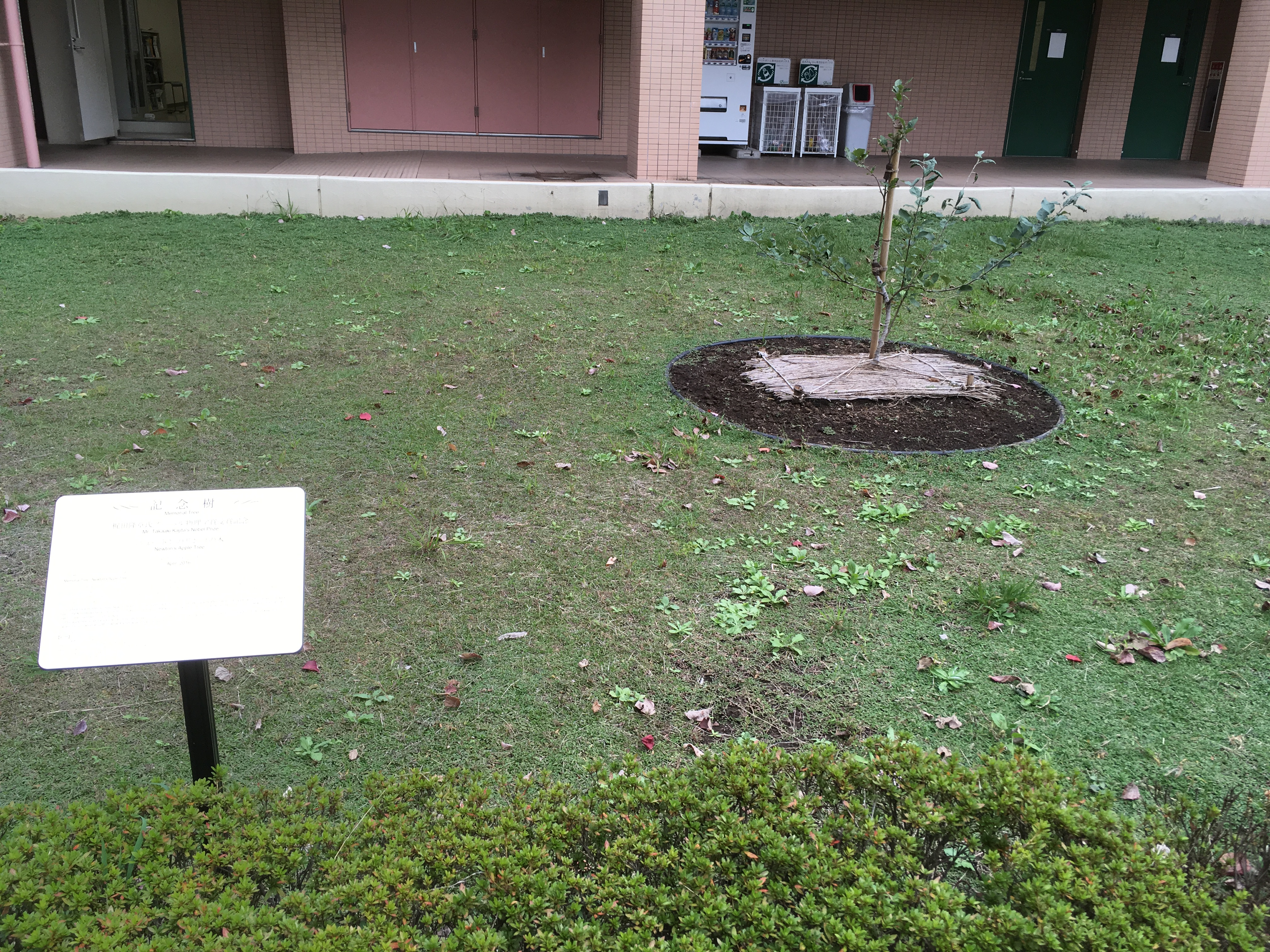 Newton's apple tree at Saitama Univeristy in Japan. This tree comes from Koishikawa Botanical Gardens, Tokyo.